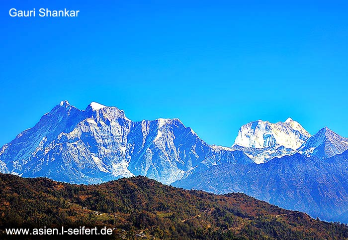 Gauri Shankar in Dolakha is the second highest peak of the Rolwaling Himal. The name comes from the Hindu goddess Gauri and her Consort Shankar.